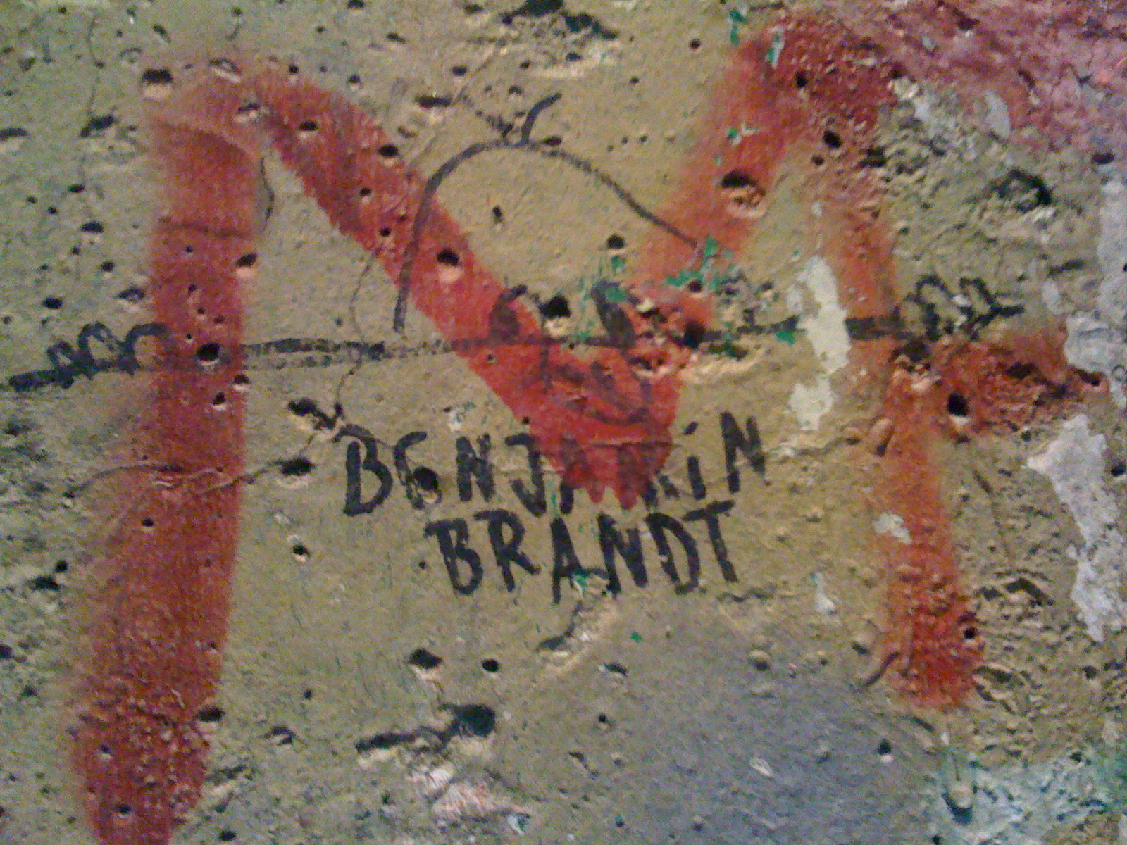 The infamous "Kilroy was here" graffiti on a piece of the Berlin Wall located in the Newseum in Washington, D.C., USA.